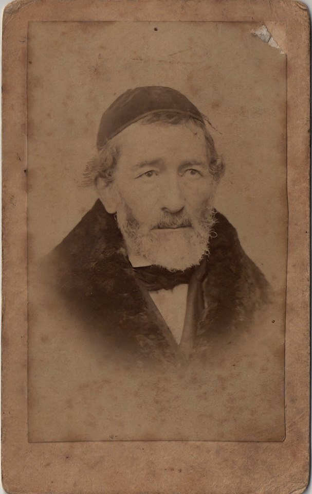 Portrait